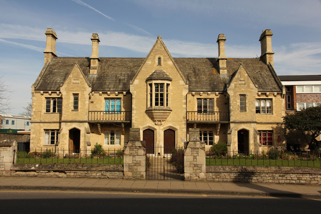 Carre's Hospital